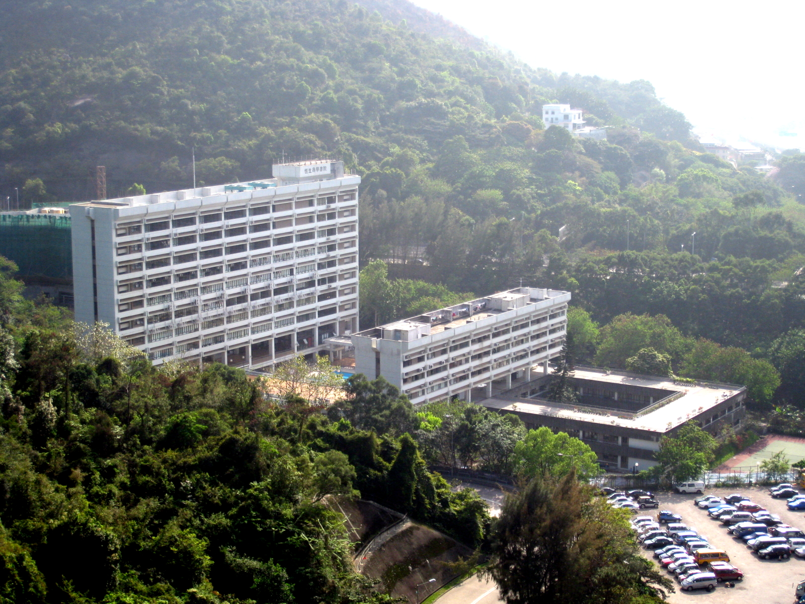 恒生商學書院 Hang Seng School Of Commerce